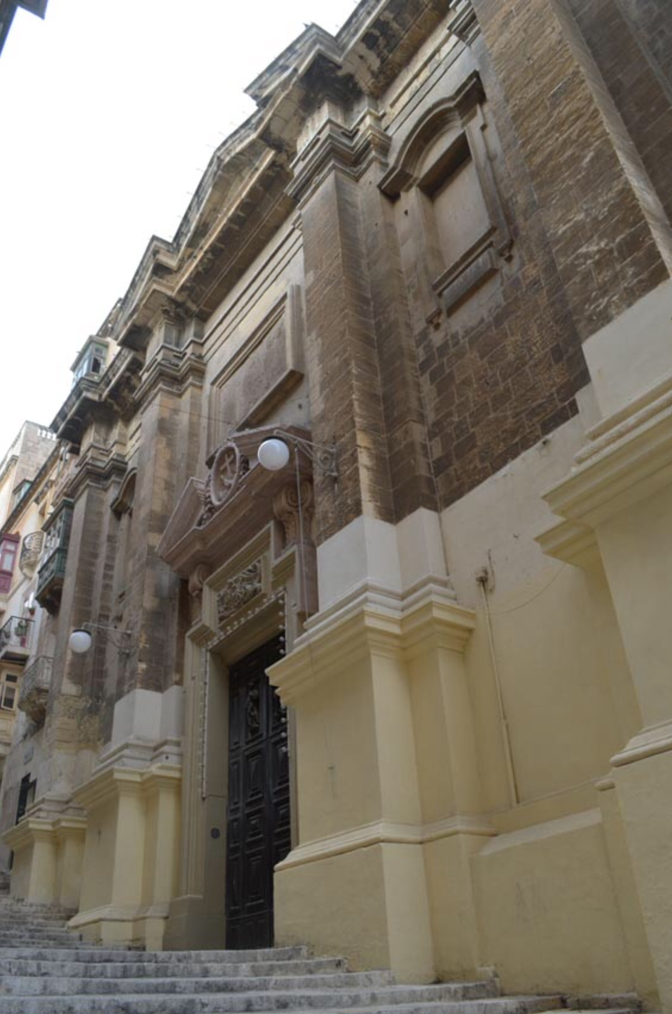 This media is about Maltese cultural property with inventory number 00520.